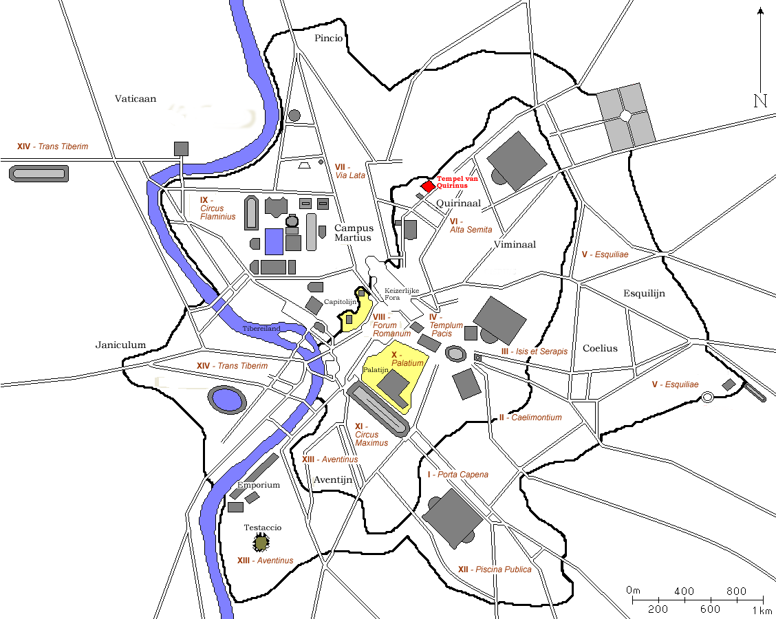 Location of the Aedes Quirini (Temple of Quirinus) on a map of ancient Rome around 300 AD